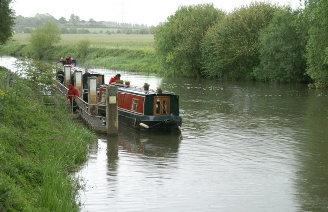 Shifford Lock, River Thames, Oxfordshire: two narrowboats waiting at the landing stage below the lock